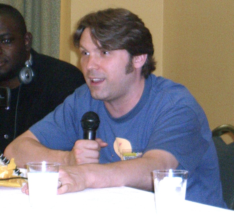 Voice actor Pete Zarustica speaking on a panel on voice acting at the Big Apple Convention in Manhattan, June 8, 2008.